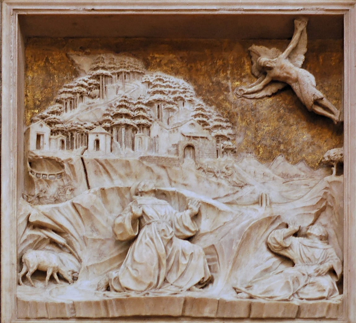 Scenes from the life of St. Francis of Assisi, by Benedetto da Maiano. Marble relief from the pulpit of the Basilica of Santa Croce, Florence.